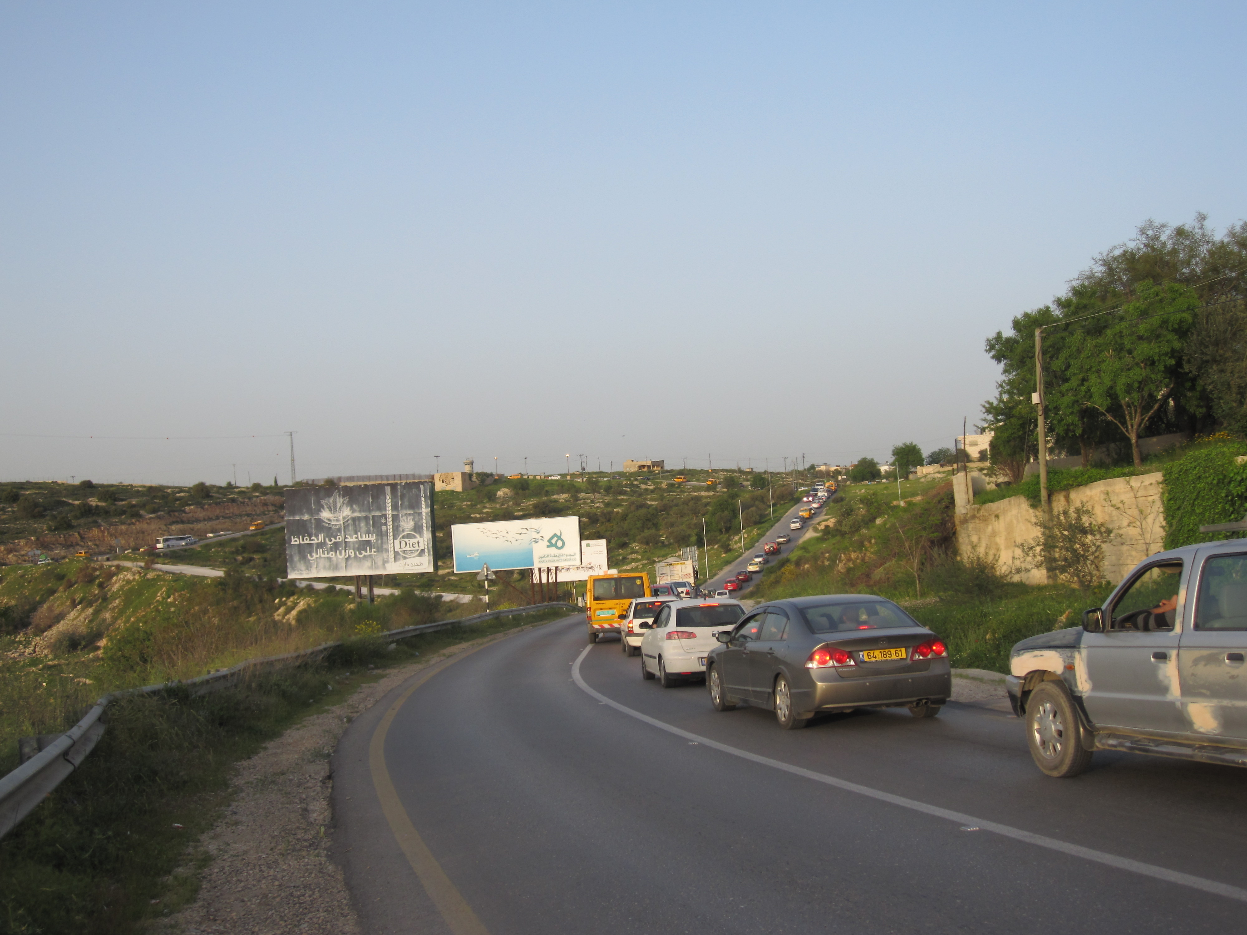 a shot showing line of cars on atara check point, controlling traffic of palestinians between north and center of the westbank, opt. the image shows the original route - currently blocked - on the lower left corner صورة لطوابير السيارات على حاجز عطارة، الذي يتحكم بالتنقل بين شمال الضفة الغربية المحتلة ووسطها، تظهر الصورة الطريق الأصلي المغلق حاليا في الزاوية السفلى إلى اليسار